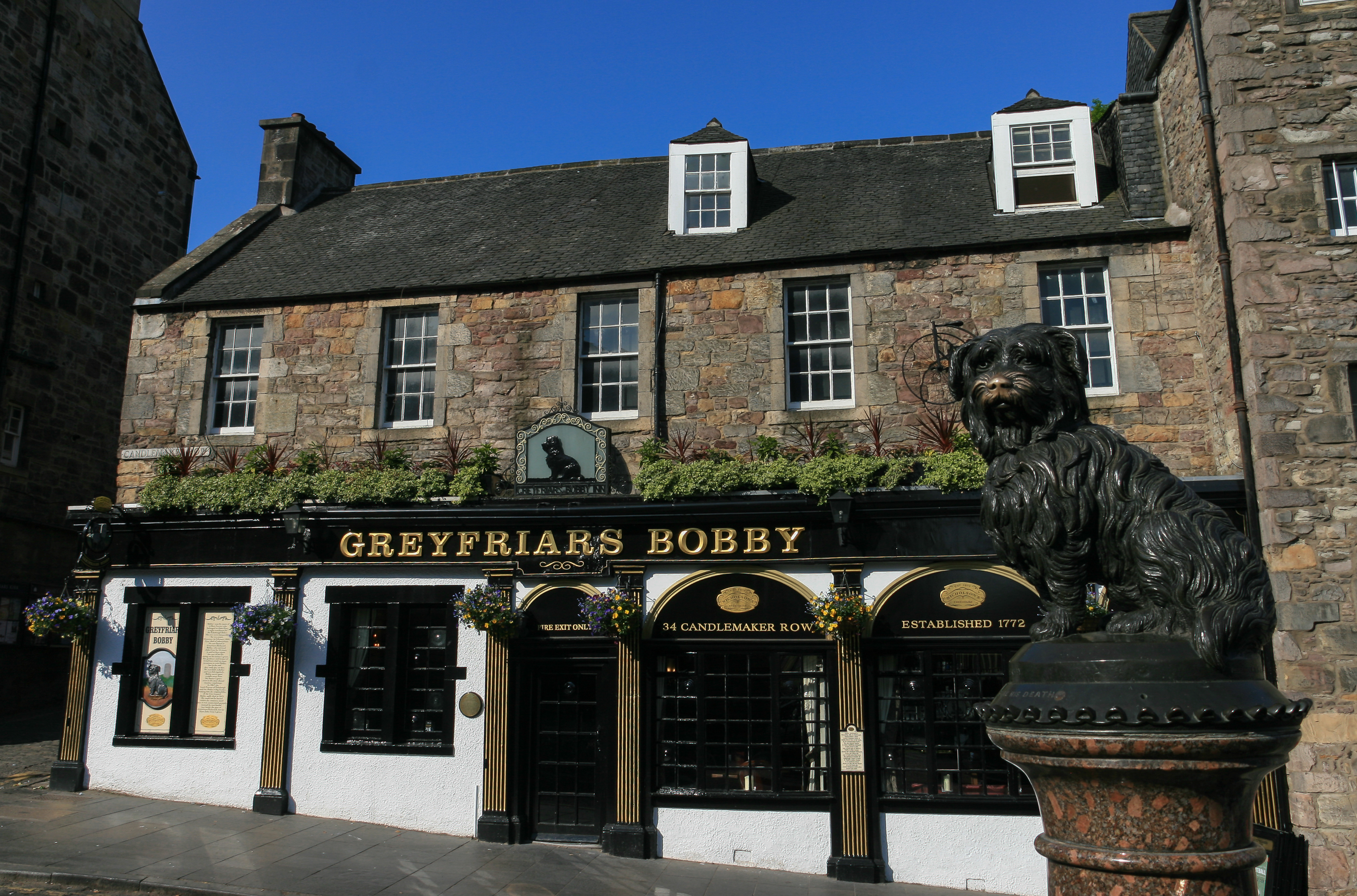 Greyfriars Bobby Memorial Fountain